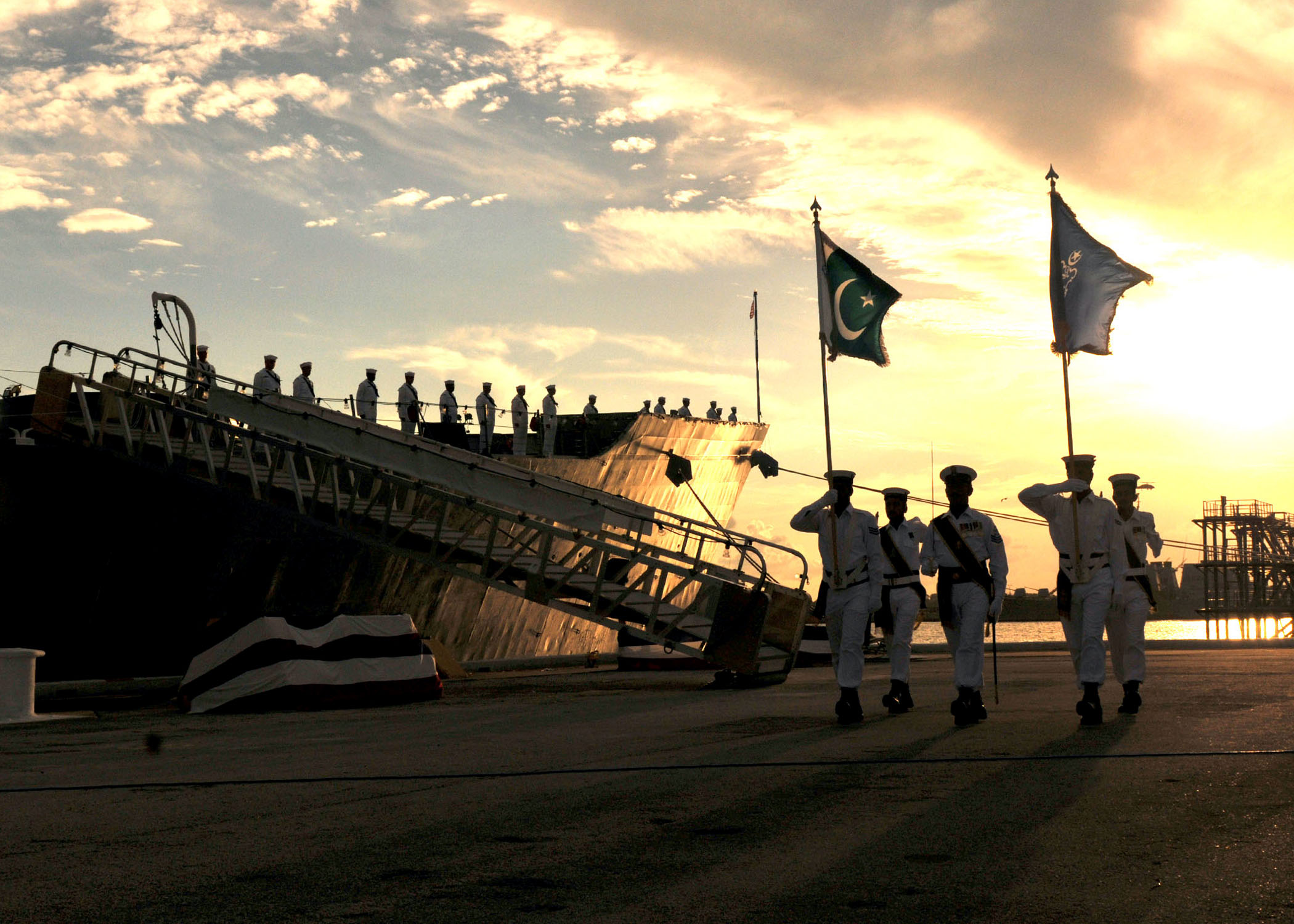 MAYPORT, Fla. (Aug. 31, 2010) Pakistan sailors parade their country's colors during the decommissioning ceremony of the guided-missile frigate USS McInerney (FFG 8) at Naval Station Mayport. During the ceremony, McInerney was commissioned into the Pakistan navy as PNS Alamgir (F 260). (U.S. Navy photo by Mass Communication Specialist 2nd Class Gary Granger Jr./Released).